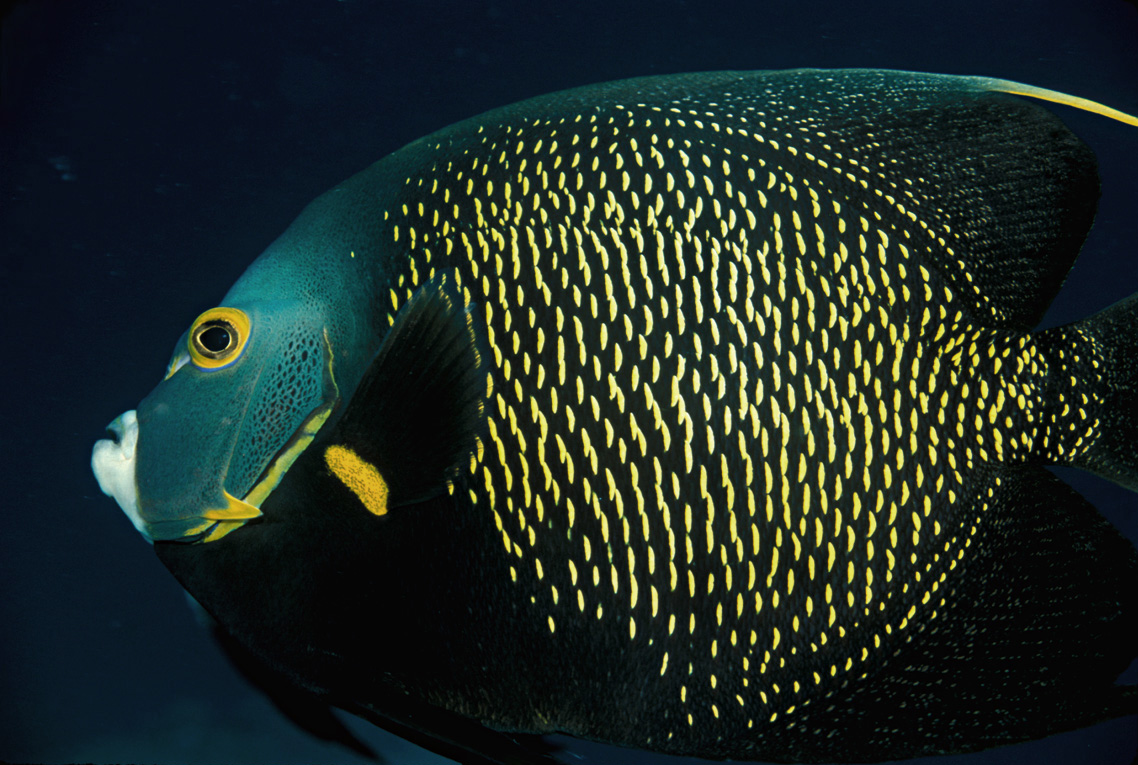 One of my favorite friends in the Dutch Caribbean, this cooperative beauty models for the camera. French Angelfish (Pomocanthus paru) – Fuji Velvia 50 slide film.